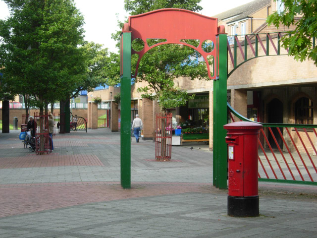 Bridgeway Centre, The Meadows The Meadows was an area of cheaply-built Victorian terraced housing situated on Nottingham's floodplain between the River Trent and the city centre. The area flooded seriously in 1947, although flood defences built in the 1950s have prevented a repeat. The area was comprehensively redeveloped in the 1970s, destroying the original street plan and the main thoroughfare - Arkwright Street. As so often with such comprehensive schemes, many people would say that the sense of community was swept away with the old houses. In the new scheme this shopping centre forms the centrepiece, and while it may not be very attractive visually, there is a range of independent shops that would do many more affluent suburbs proud.